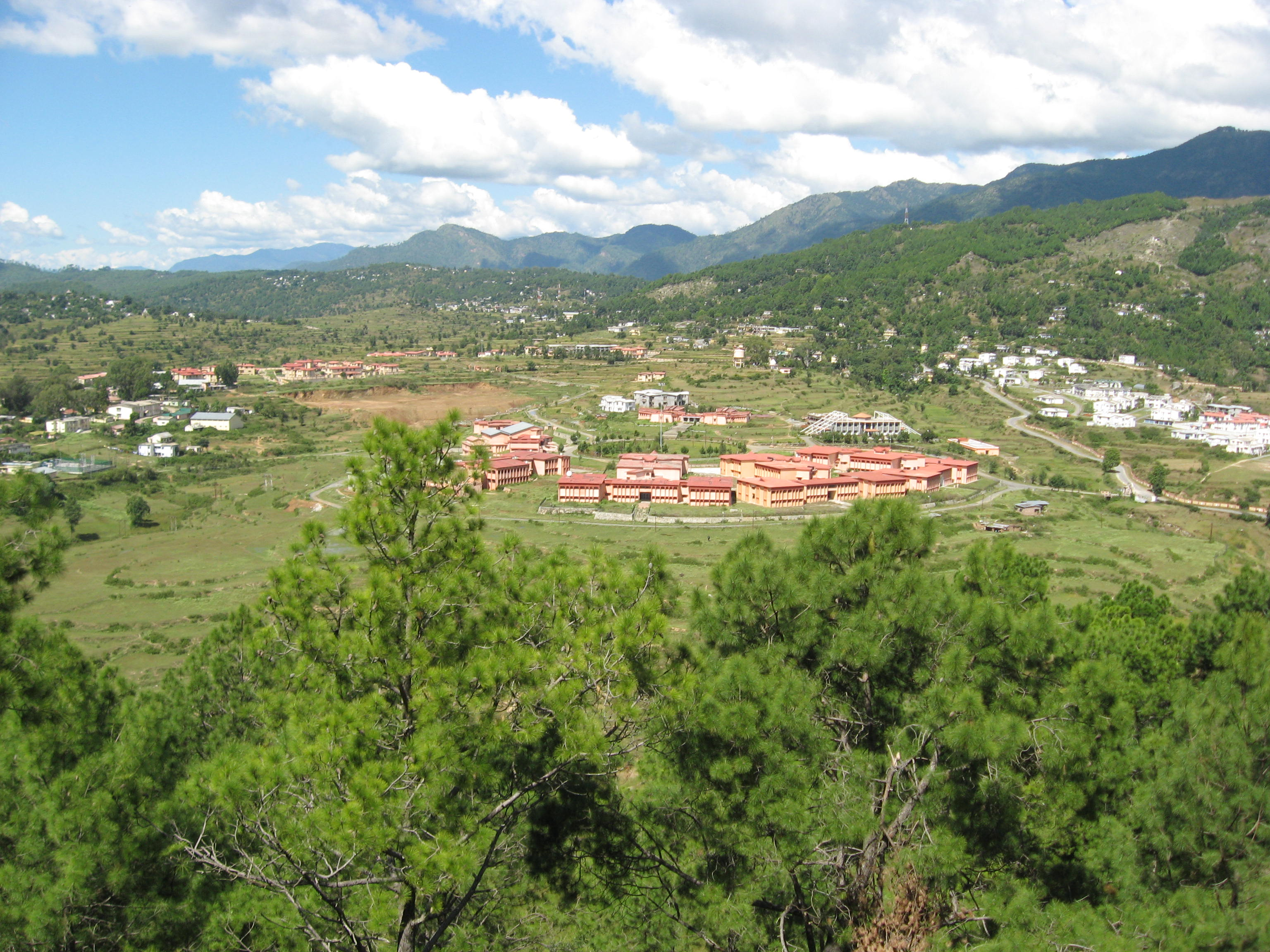 Top View of Kumaon Engineering College